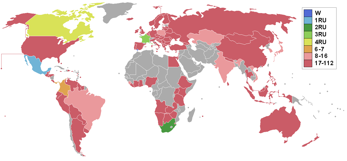 Ms World 2009 participation map